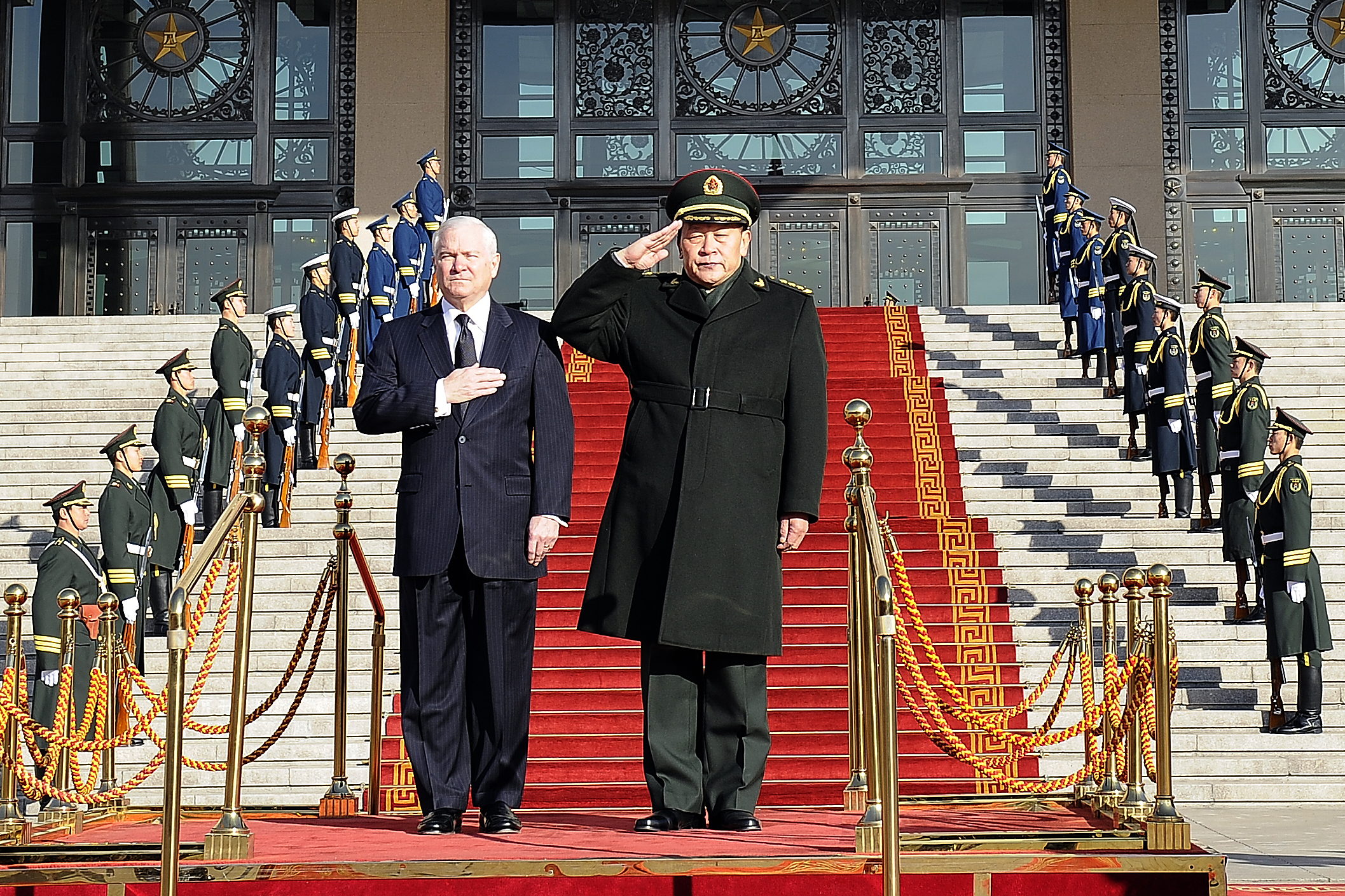 U.S. Defense Secretary Robert M. Gates and Chinese Defense Minister Liang Guanglie pay their respects as each other's national anthem is played by the People's LIberation Army at the ministry of Defense in Beijing, Jan. 10, 2011. Gates met with Chinese Defense Minister Liang Guanglie and his staff at the ministry and held a press conference.